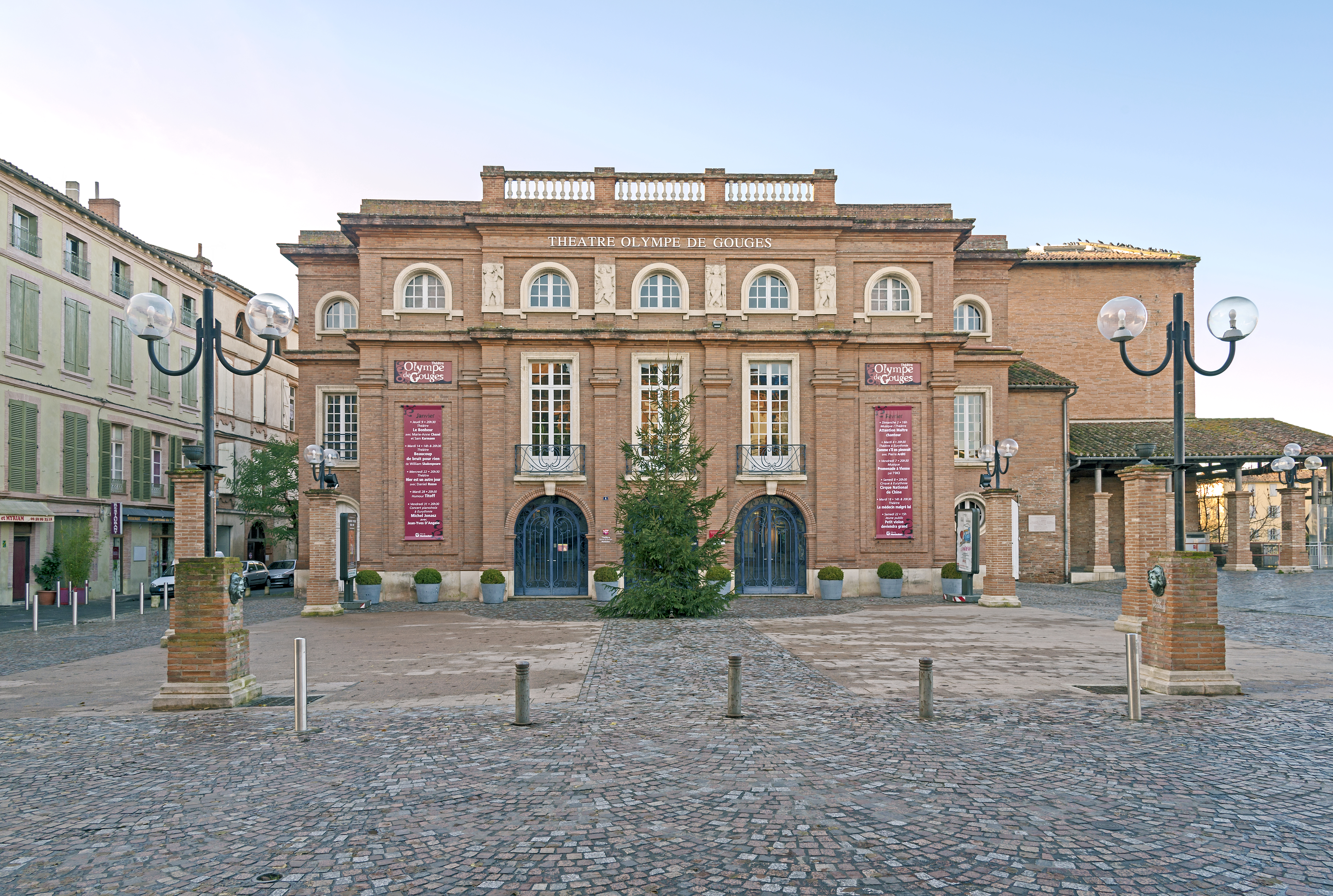 Olympe de Gouges theater, Montauban, Tarn et Garonne, France. Facade.